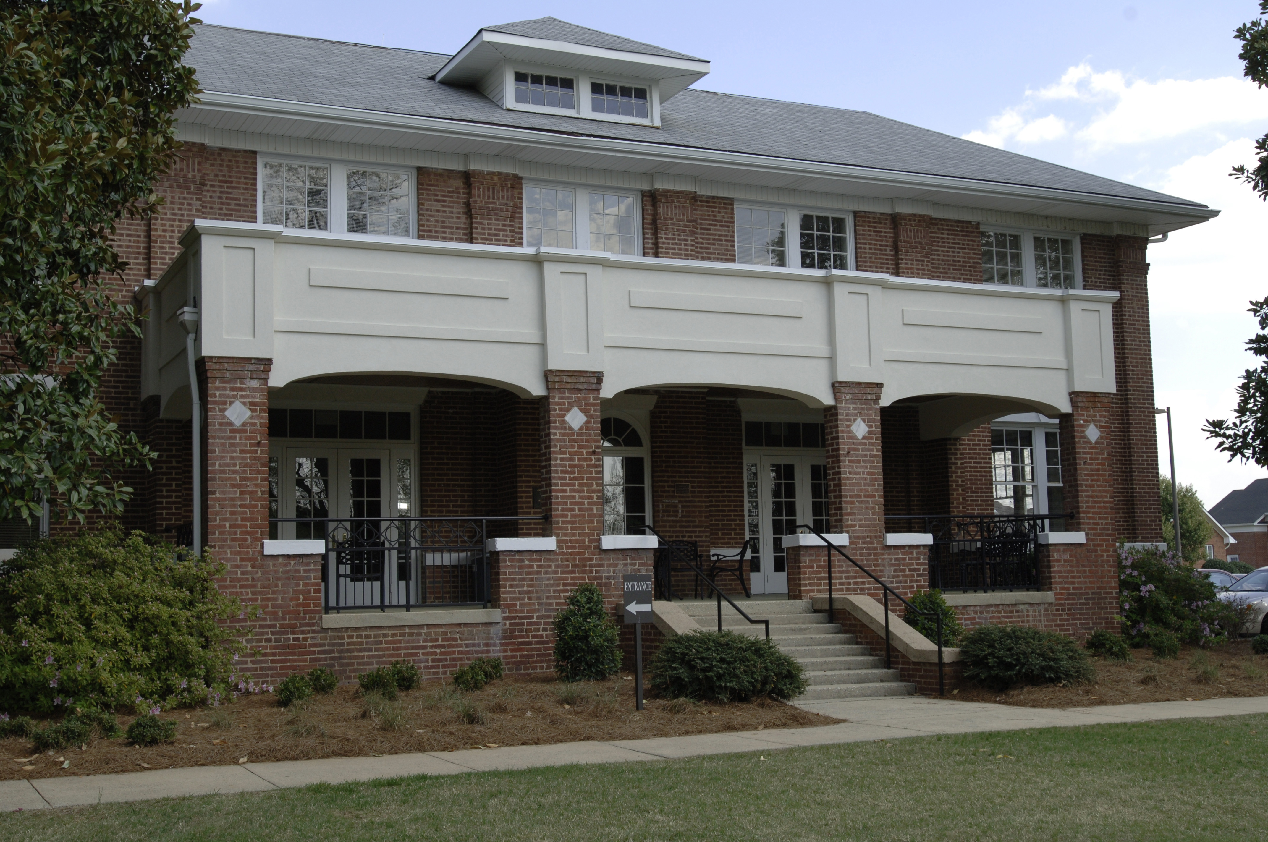 Johnston Hall, 103 Antioch St. Elon College. Built in 1925 as part of Elon Homes for Children.